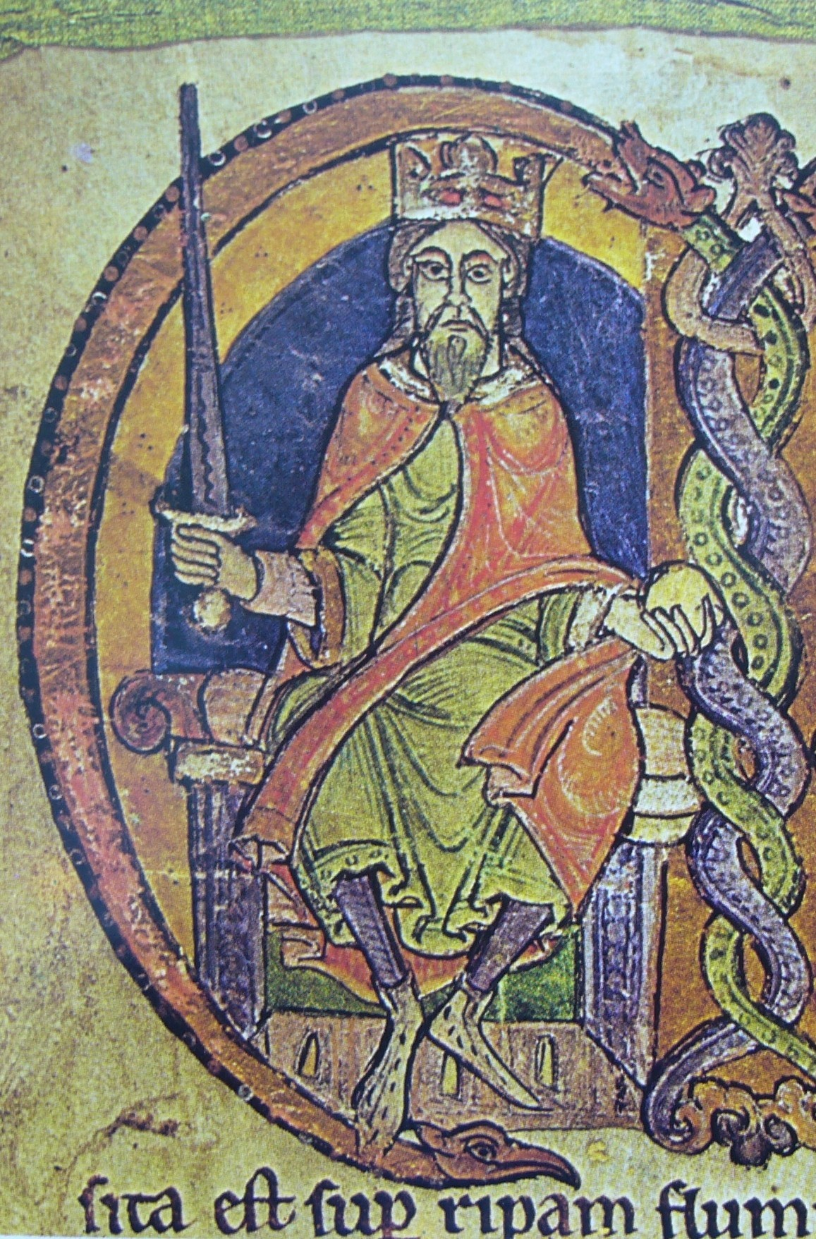 David I of Scotland and , detail of an illuminated initial on the Kelso Abbey charter of 1159